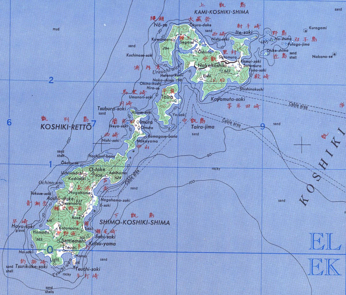 map of the Koshikijima Islands